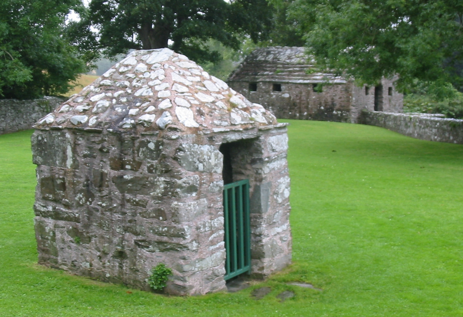 Struell Wells, near Downpatrick, Northern Ireland - site of reputed healing wells believed to be connected with Saint Patrick